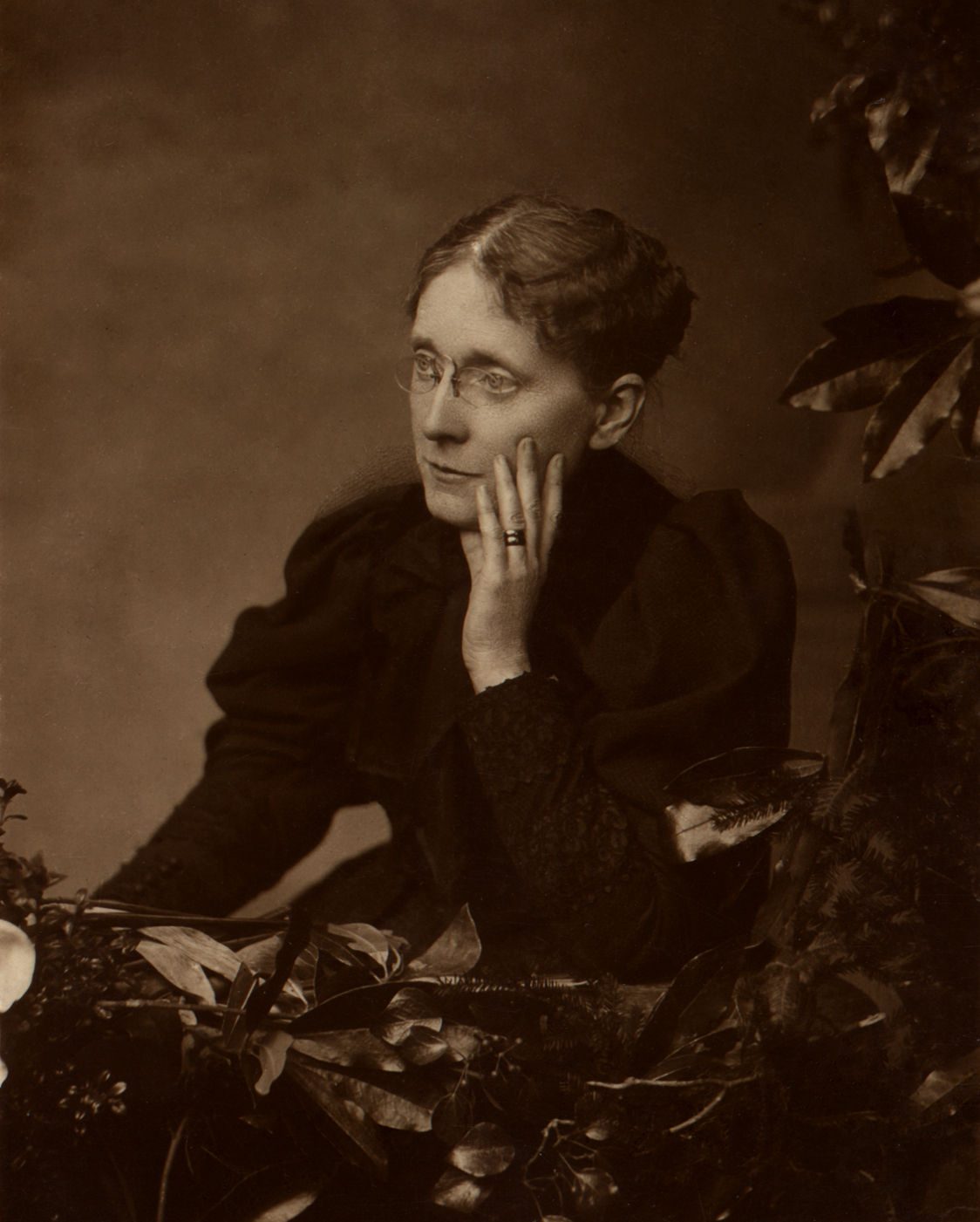 Frances Willard was an American teacher, suffragette, feminists, reformer and co-founder of the Woman's Christian Temperance Union (WCTU) in 1874 and their president from 1879 on.